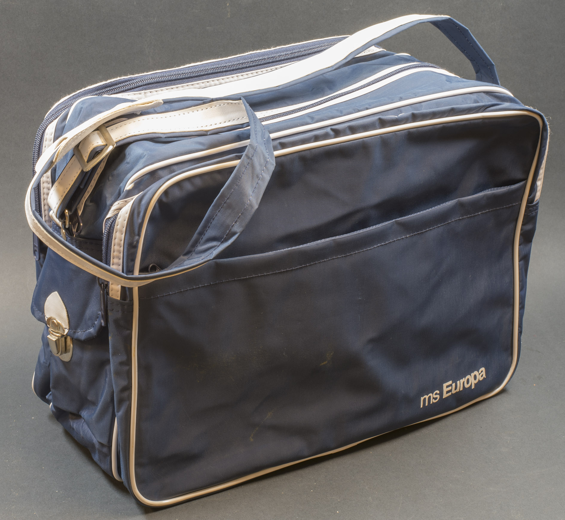 Bag from cruise liner EUROPA (1986)